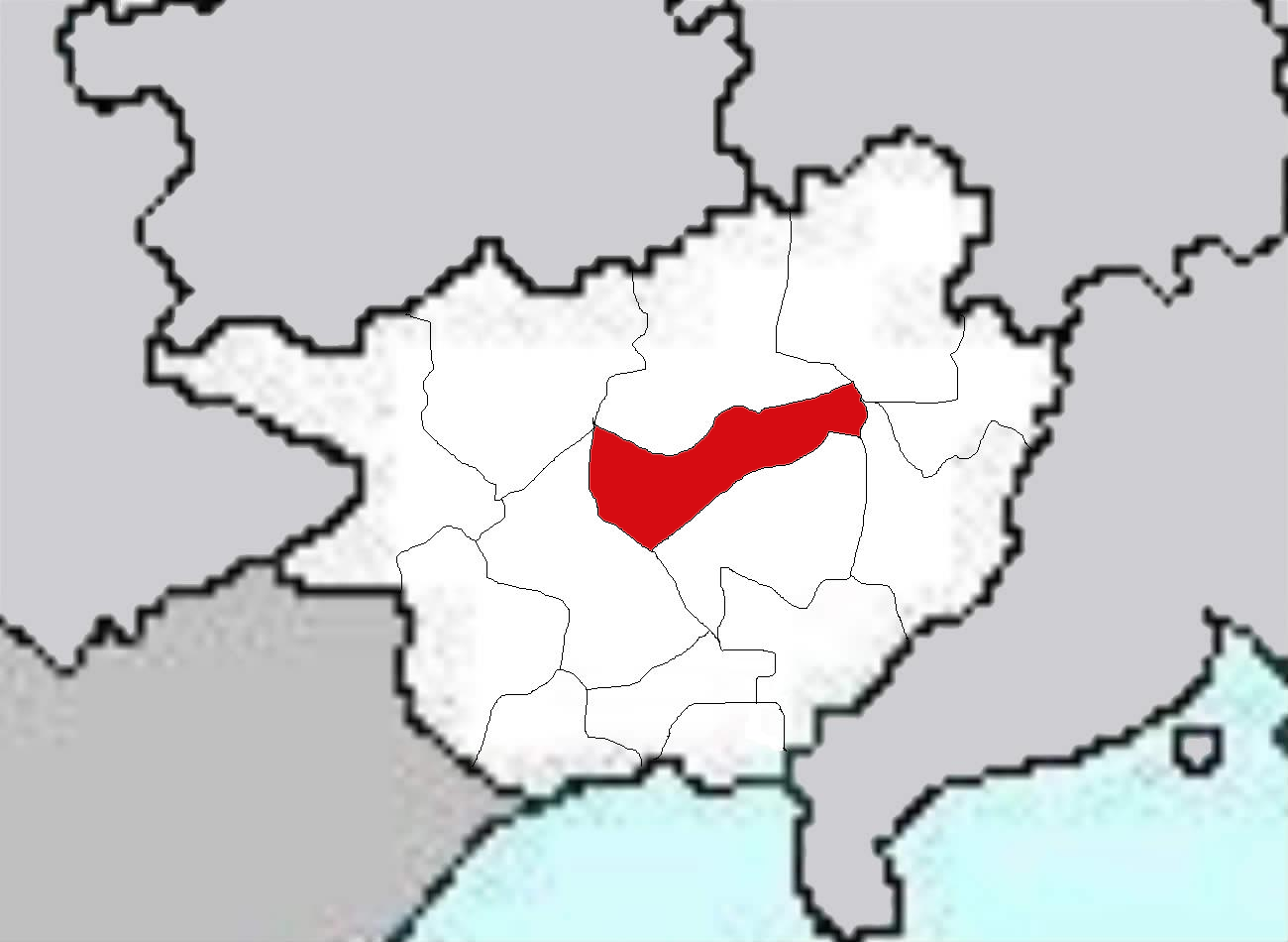 Maps of Guangxi Autonomous Region of China.